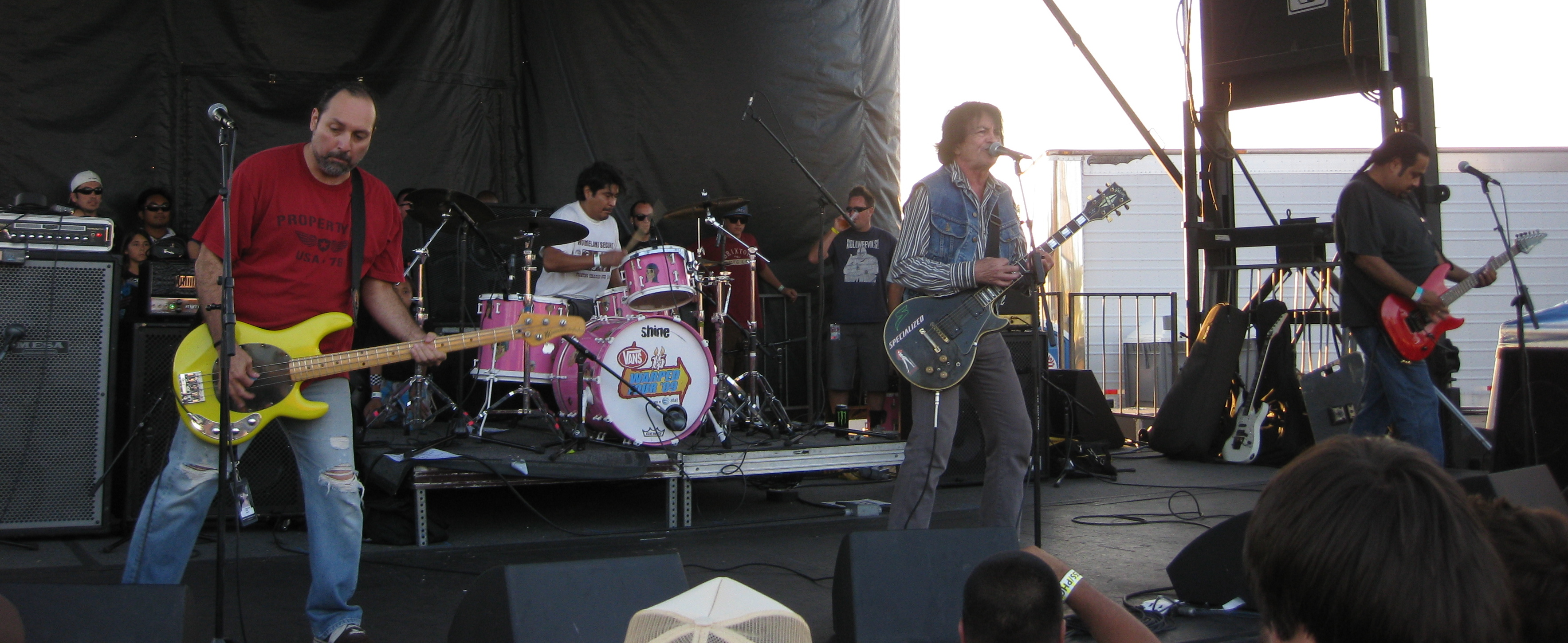 Fear performing on the Warped Tour at the Cricket Wireless Amphitheatre in Chula Vista, California on August 10, 2010. Left to right: Paul Lerma, Andrew Jamiez, Lee Ving, and Lawrence Arrieta.